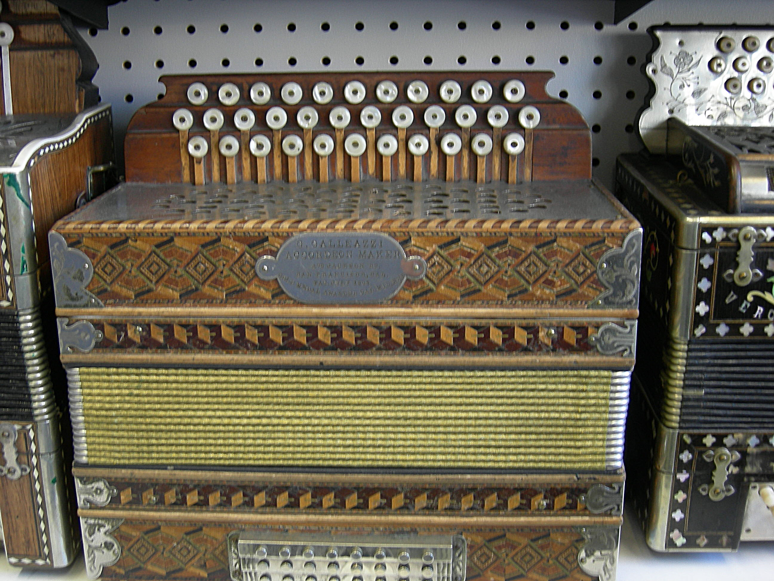 Old accordion in the collection of Petosa Accordions, Seattle, Washington, on display in their shop. Plate marking on it says "G. Galleazzi Accordeon (sic) Maker, (illegible number) Jackson Rd., San Francisco, Cal...", (illegible) July (illegible date, possibly 1895), (illegible) awarded (illegible)". I'm afraid this is not a great picture: it was taken handheld in difficult lighting conditions; I've done my best to sharpen it. If someone knows more about accordions, please feel free to enhance the description. G. Galleazzi made his accordions in a family shop in the late 1800's at 478 Jackson St. in San Francisco. He made a full range of button diatonic and piano models.